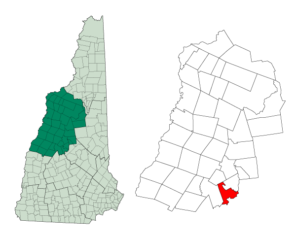 Map of a municipality in Grafton County, New Hampshire